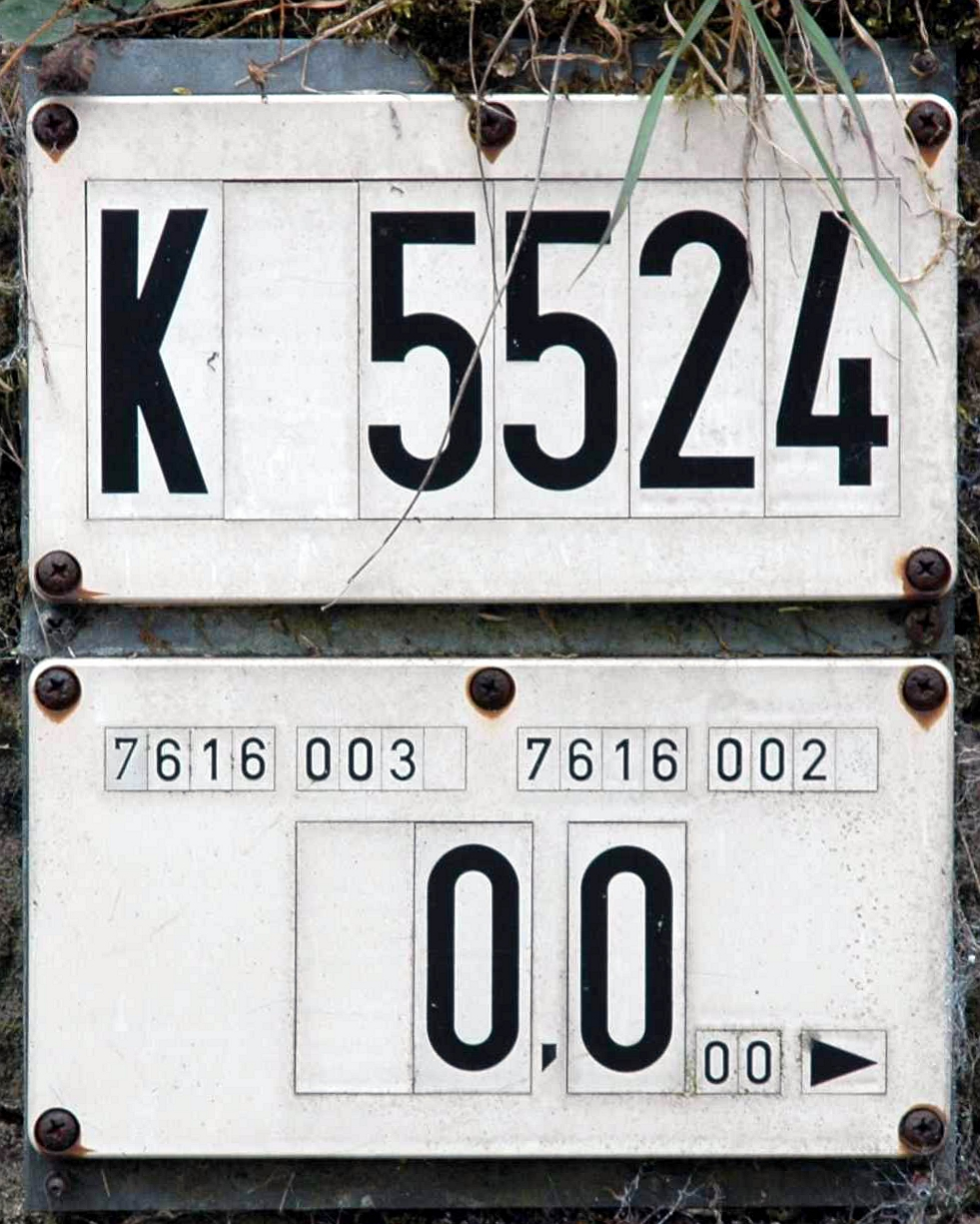 beginning of a local road in Wittichen (part on Schenkenzell in the Black Forrest).